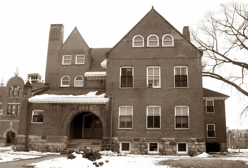 Photo self-taken and sepiatoned.